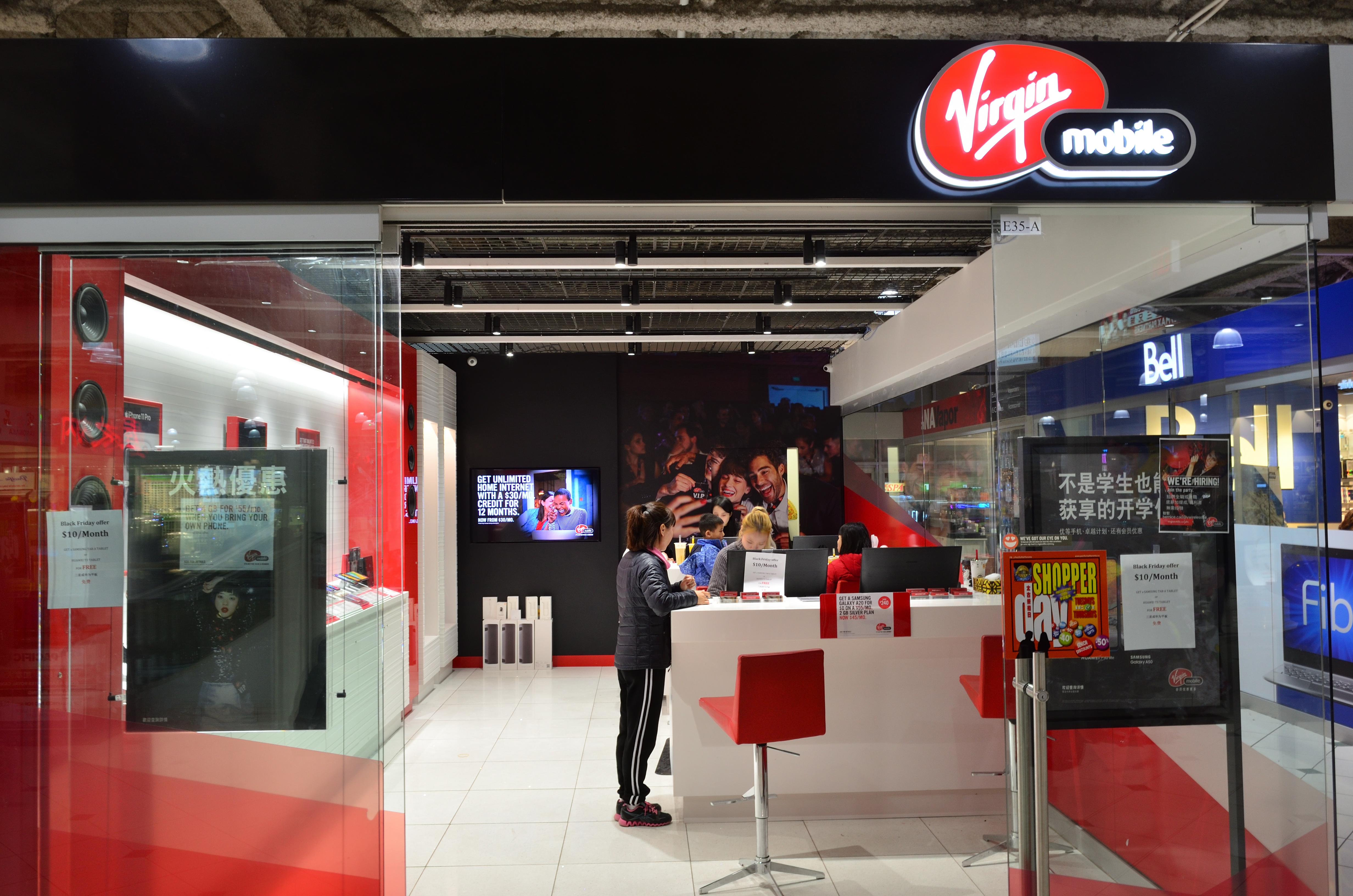 Virgin Mobile at Pacific Mall